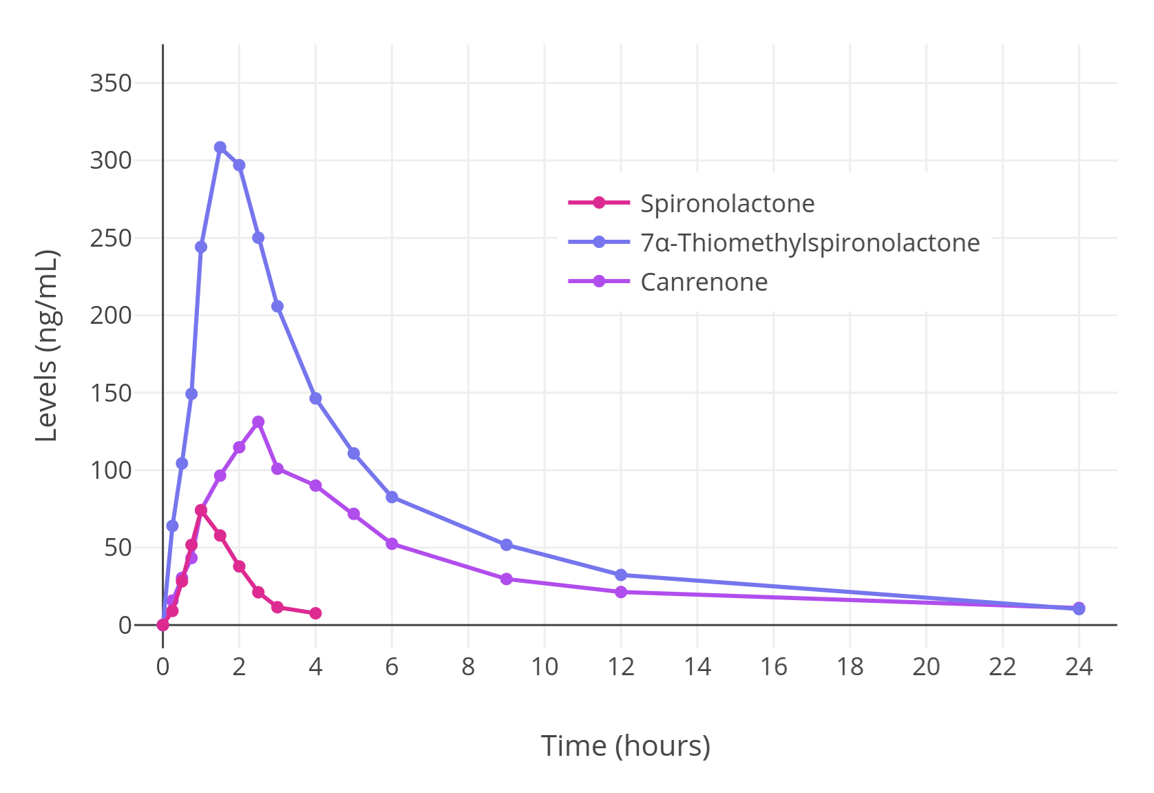 Spironolactone and metabolite levels after a single oral dose of 100 mg spironolactone. Source of the values: (June 1996). "Simultaneous determination of spironolactone and its metabolites in human plasma". J Pharm Biomed Anal 14 (8-10): 1359–65. PMID 8818057.